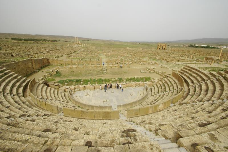 Ancient Roman theater in Timgad